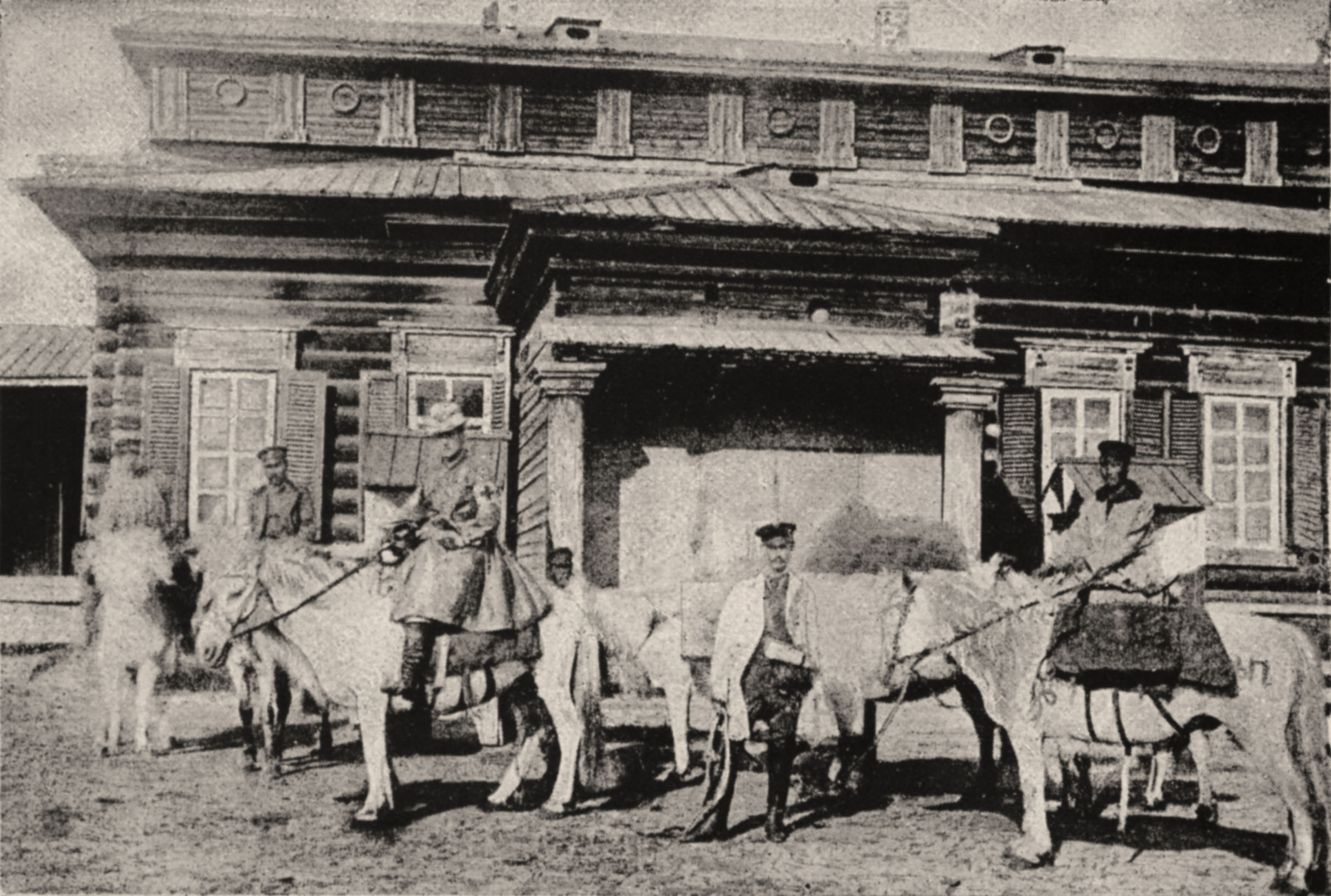 Kate Marsden leaving Yakutsk after visiting Siberian lepers. 1891